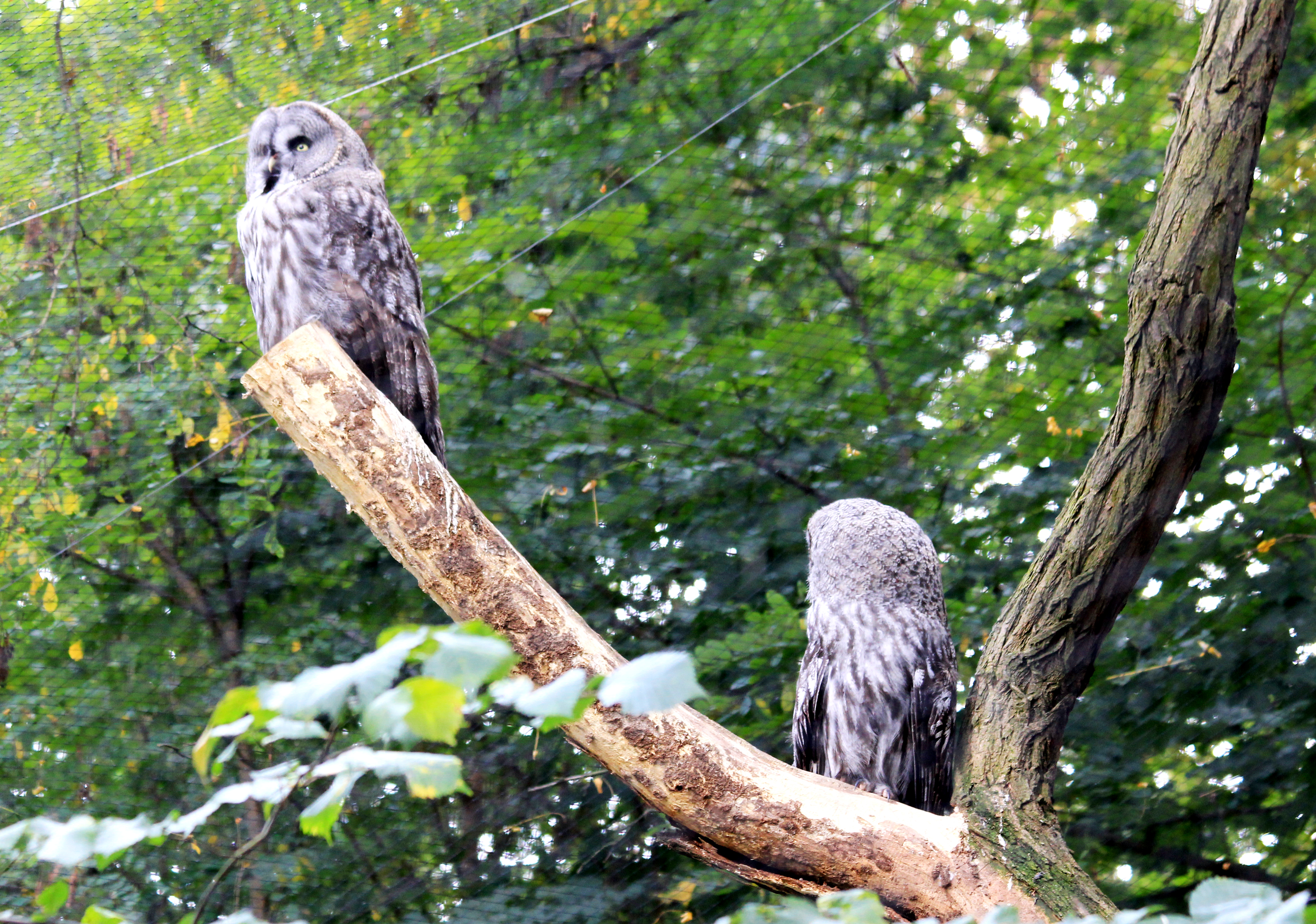 Great Grey Owl (Strix nebulosa) in Prague Zoo, Czech Republic